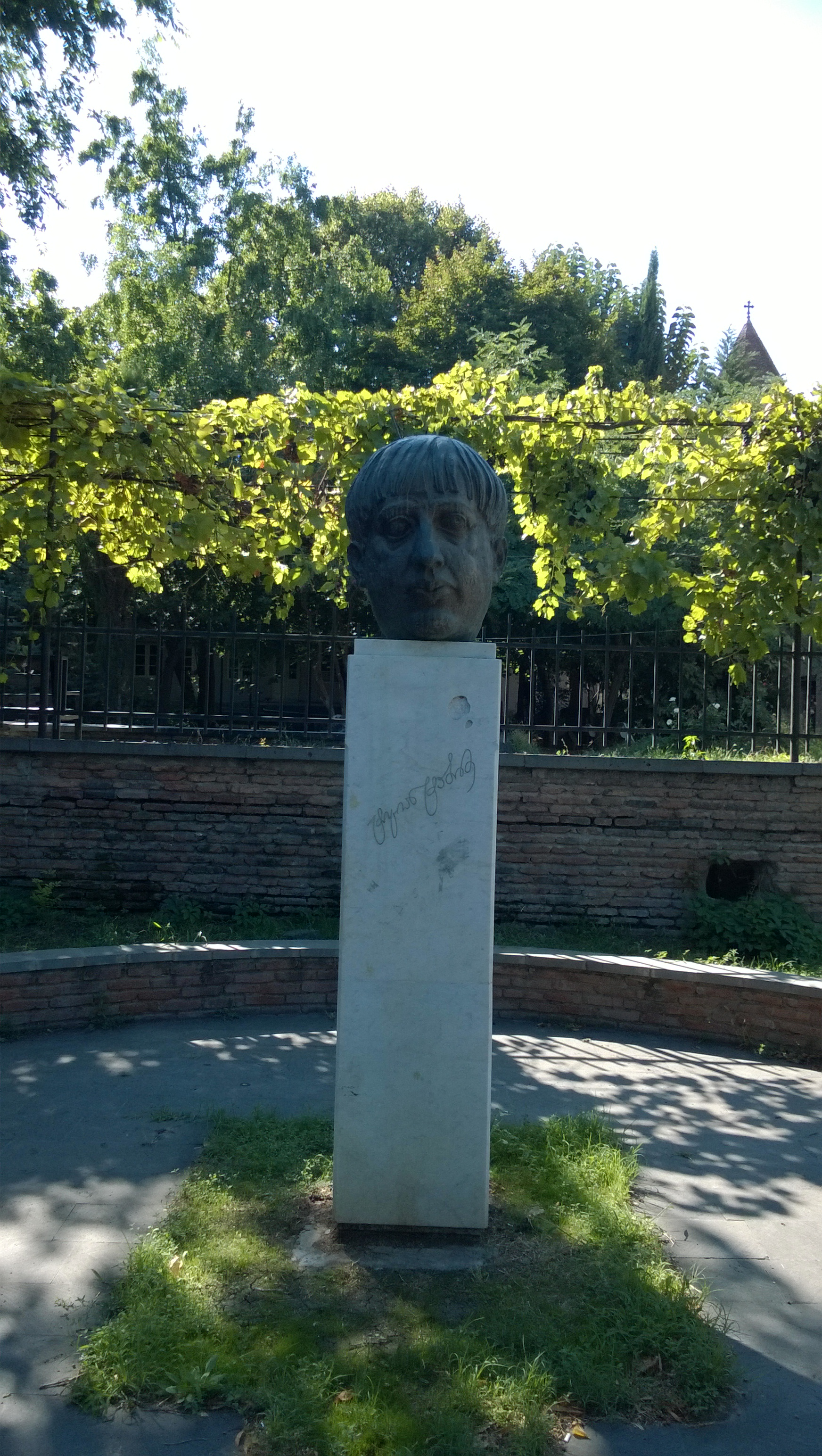 ტიციან ტაბიძის ძეგლი